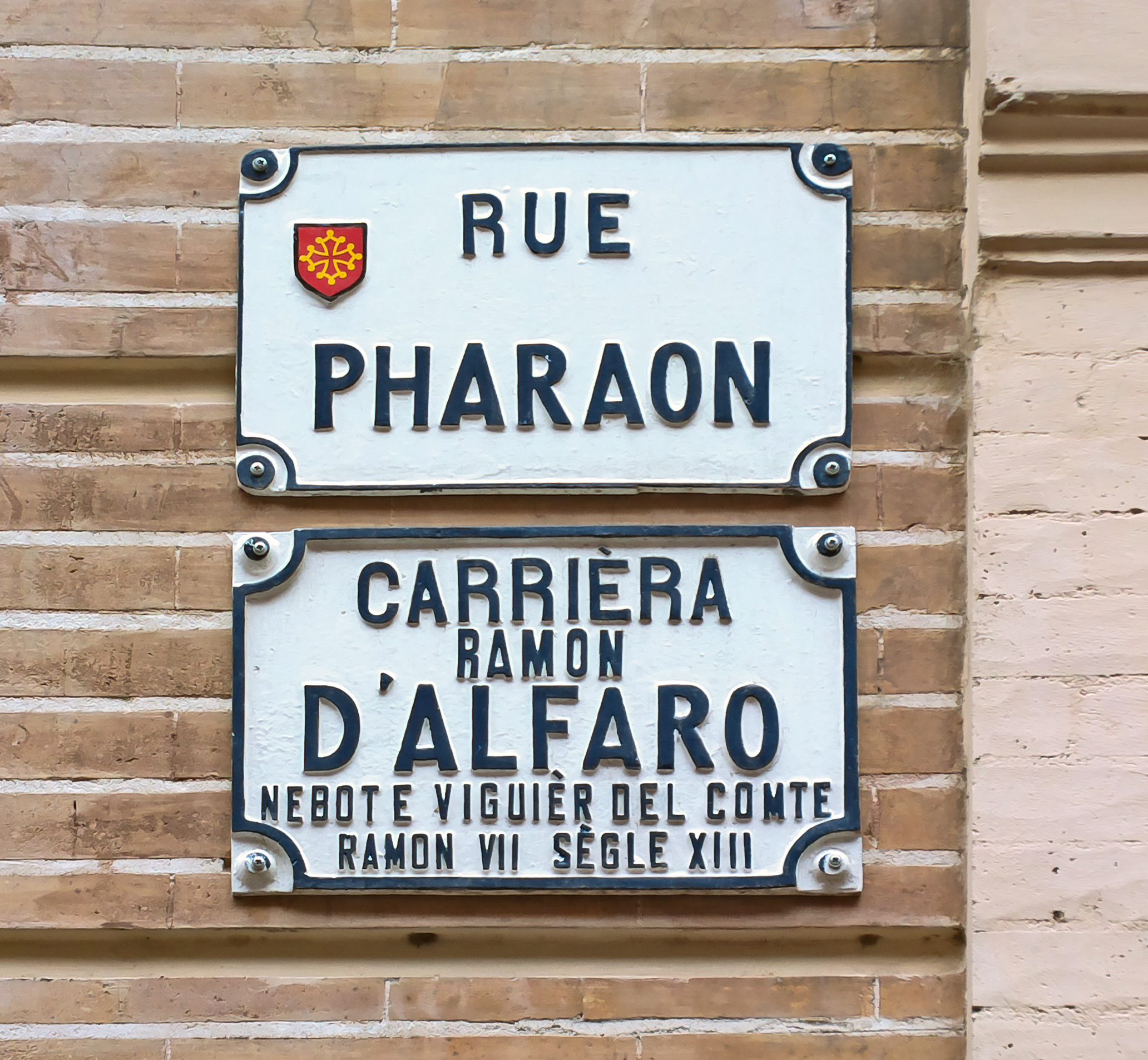 Pharaon street, in Toulouse - Street name sign. They have the particularity of being: in French and Occitan.